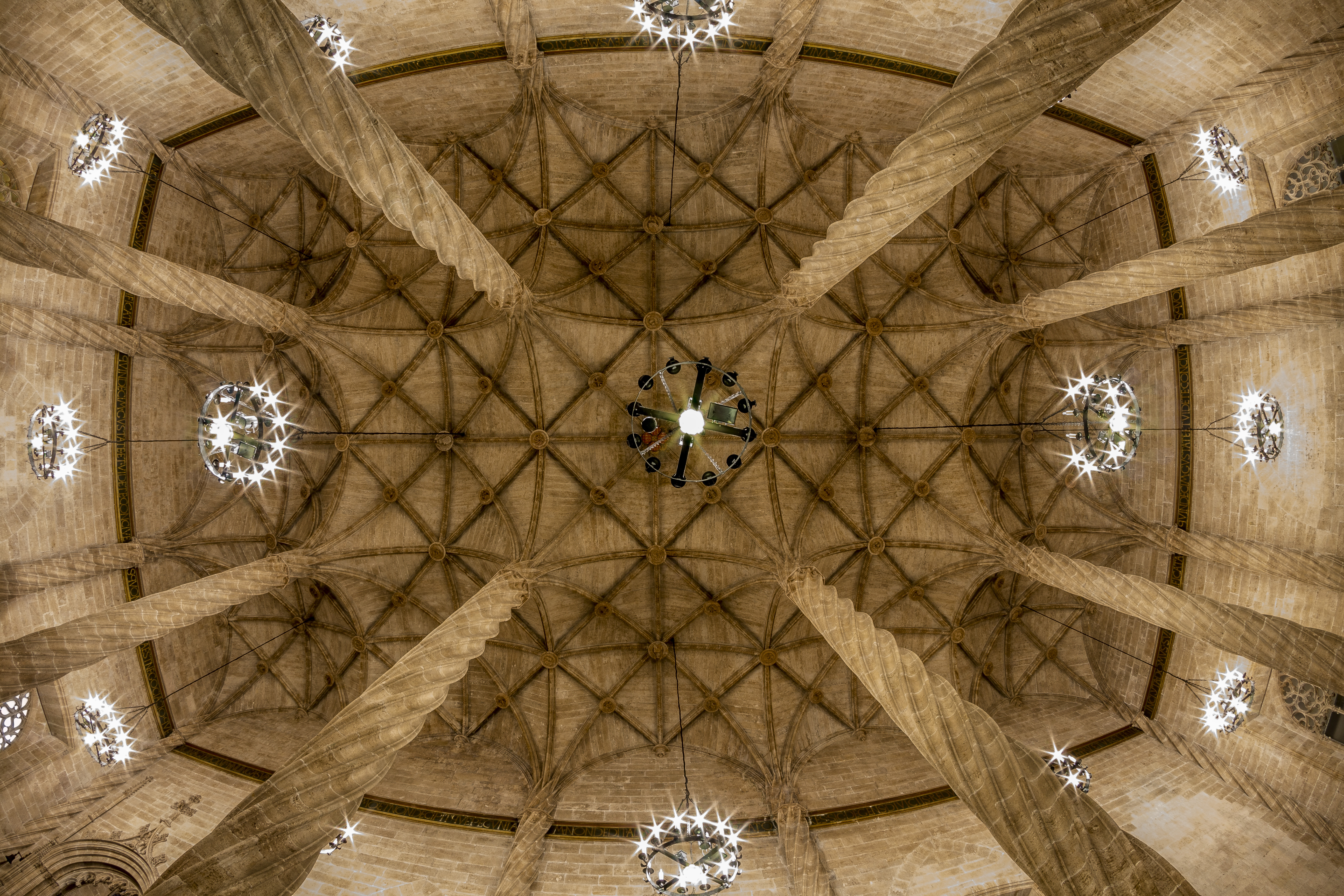 Fisheye view of the ceiling of the Salón Columnario of the Lonja de la Seda de Valencia, showing its characteristic columns